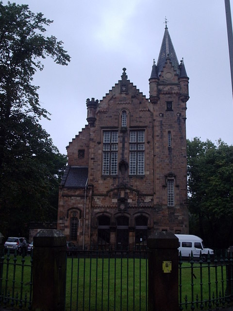 Dixon Halls Crosshill and Govanhill Burgh Hall was gifted to the burghs by William Smith Dixon of Govan Iron Works. The Scottish Baronial building was completed in 1879. The architect was Frank Stirrat, the winner of a competition for its commission. The boundary between the two burghs bisected the building allowing courtrooms and offices for each burgh to have separate access. The building was renamed Dixon Halls when Crosshill and Govanhill were annexed by Glasgow in 1891.